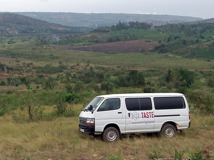 A mobile teaching laboratory in Lwengo District, Uganda, operated by The African Science Truck Experience. This van contains science equipment which is transported between different schools.